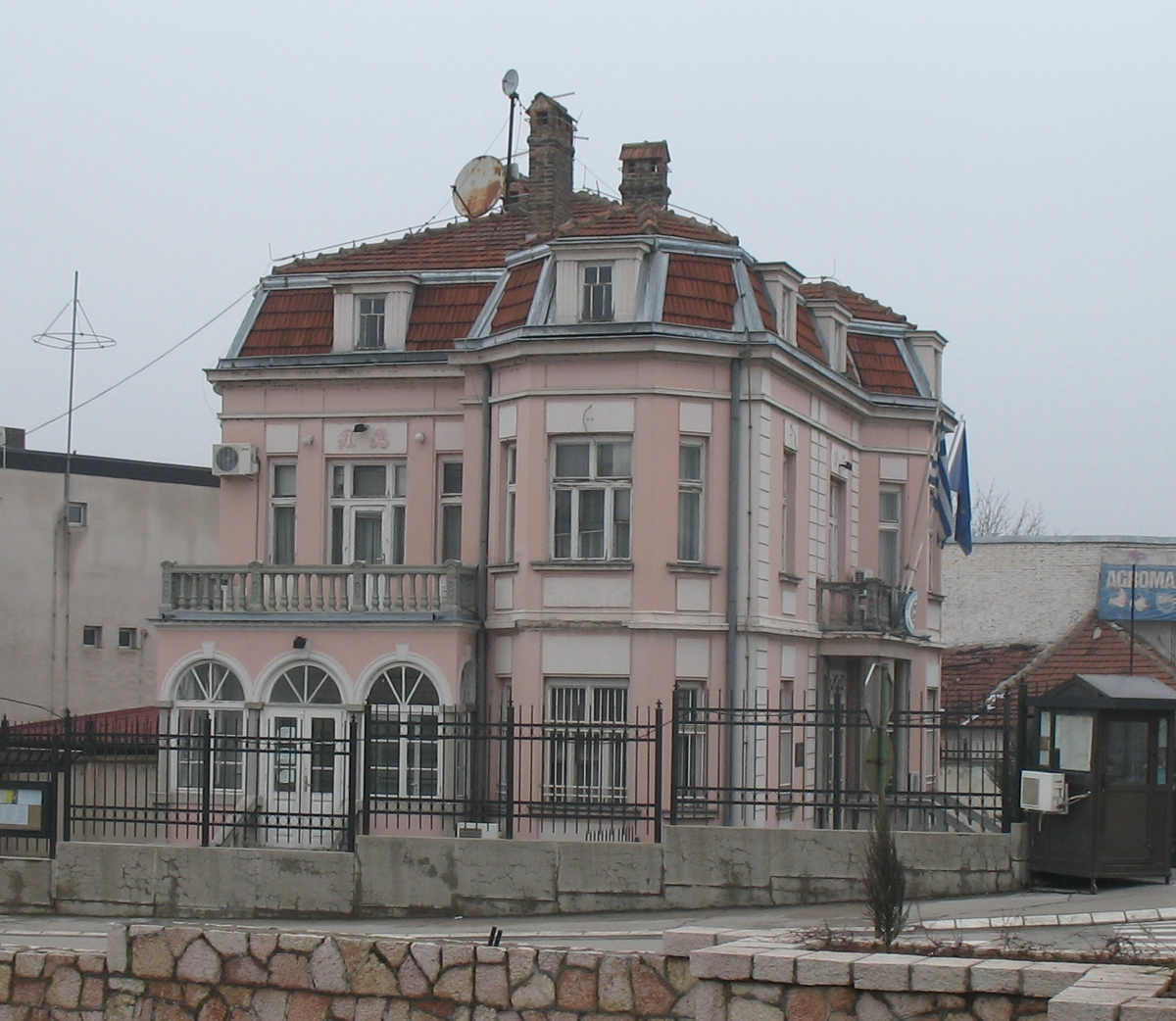 Consulate of Grece in Niš, Serbia.